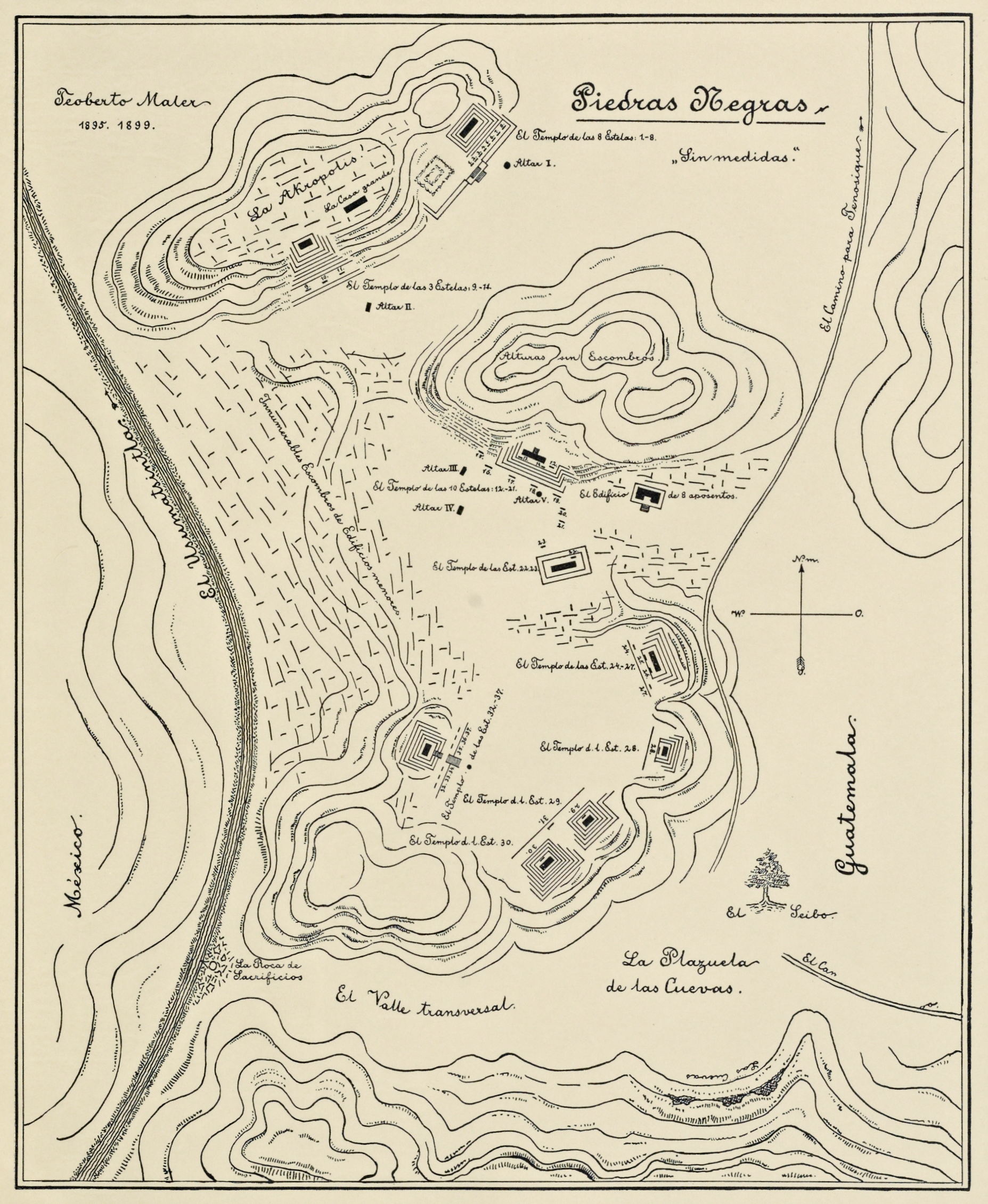 Plate XXXIII from Researches in the Central Portion of the Usumatsintla Valley, published in 1901.Piedras Negras: Plan of the ruins.